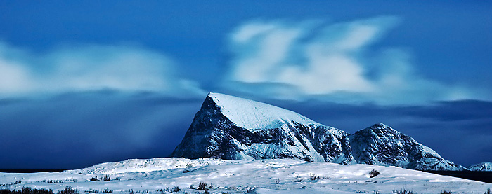 The island Håja in the municipality og Tromsø